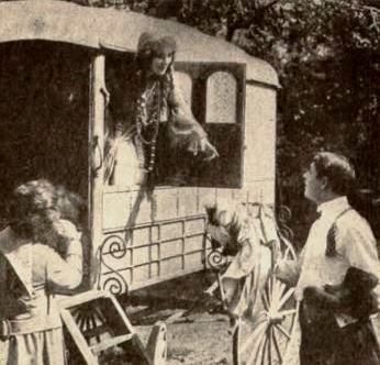 Still from the American drama film Under the Greenwood Tree (1918) with Elsie Ferguson, on page 28 of the December 7, 1918 Exhibitors Herald.